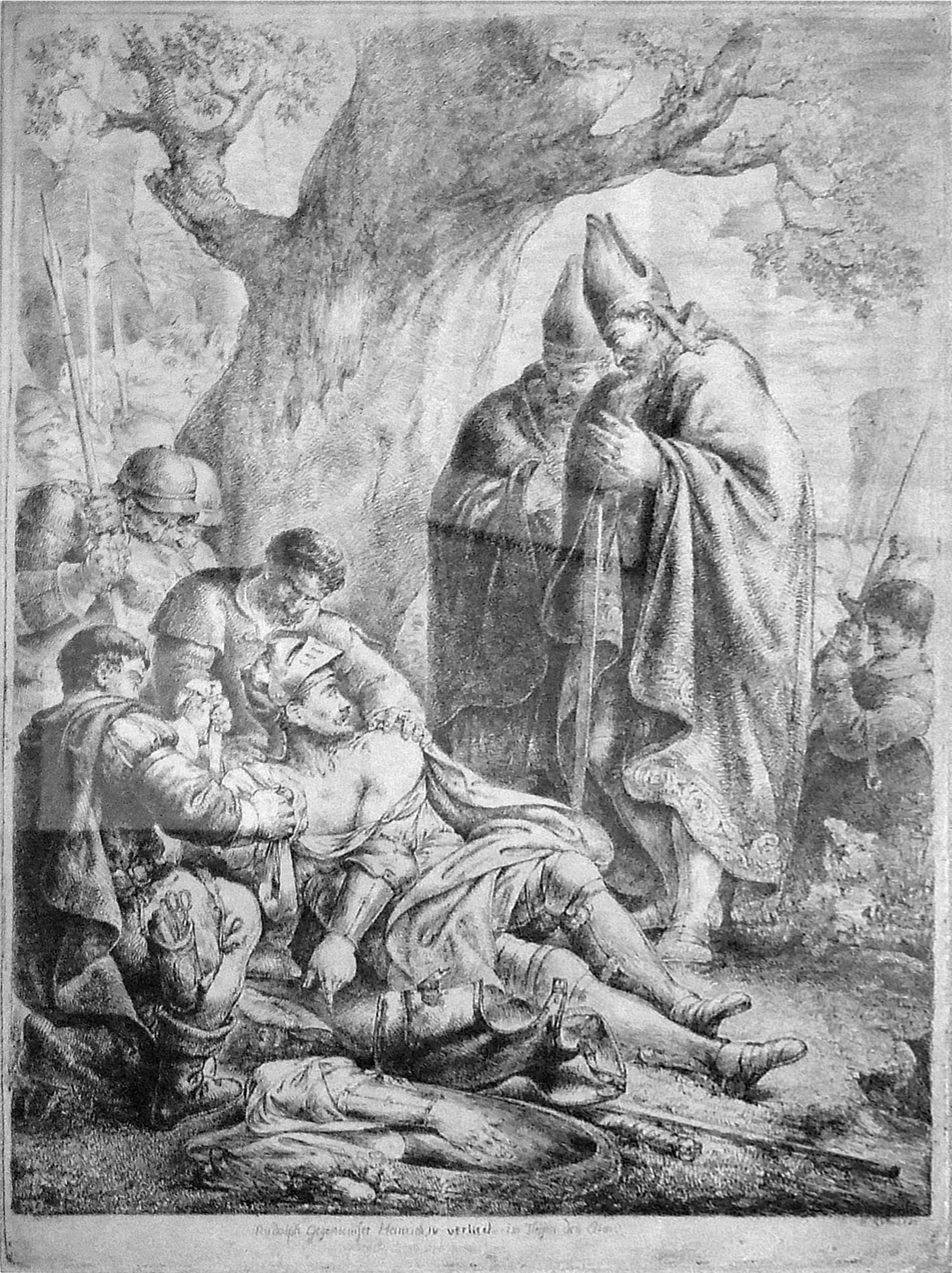 Rudolph, the Anti-Kaiser of Henry IV, Loses His Arm in Combat. Engraving by Bernhard Rode, 1781. "Rudolph, Duke of Swabia, was elected German king in place of Henry IV; but when he was mortally wounded in a battle against Henry and his right hand was chopped off, the sight of it prompted him to say shortly before his demise to the assembled bishops, 'That is the hand with which I swore fealty to my lord Henry. You who have placed me on his throne should now ponder whether in doing so you led me on the right path.' " (Catalog of the Academy Exhibition of 1788, 1, in Die Kataloge der Berliner Akademie-Ausstellungen 1786-1850, ed. H. Börsch-Supan, Bd. 1, Berlin 1971.)